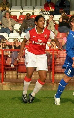 Bclfc vs arsenal in the FA league cup, season 2006/07. For more details go to